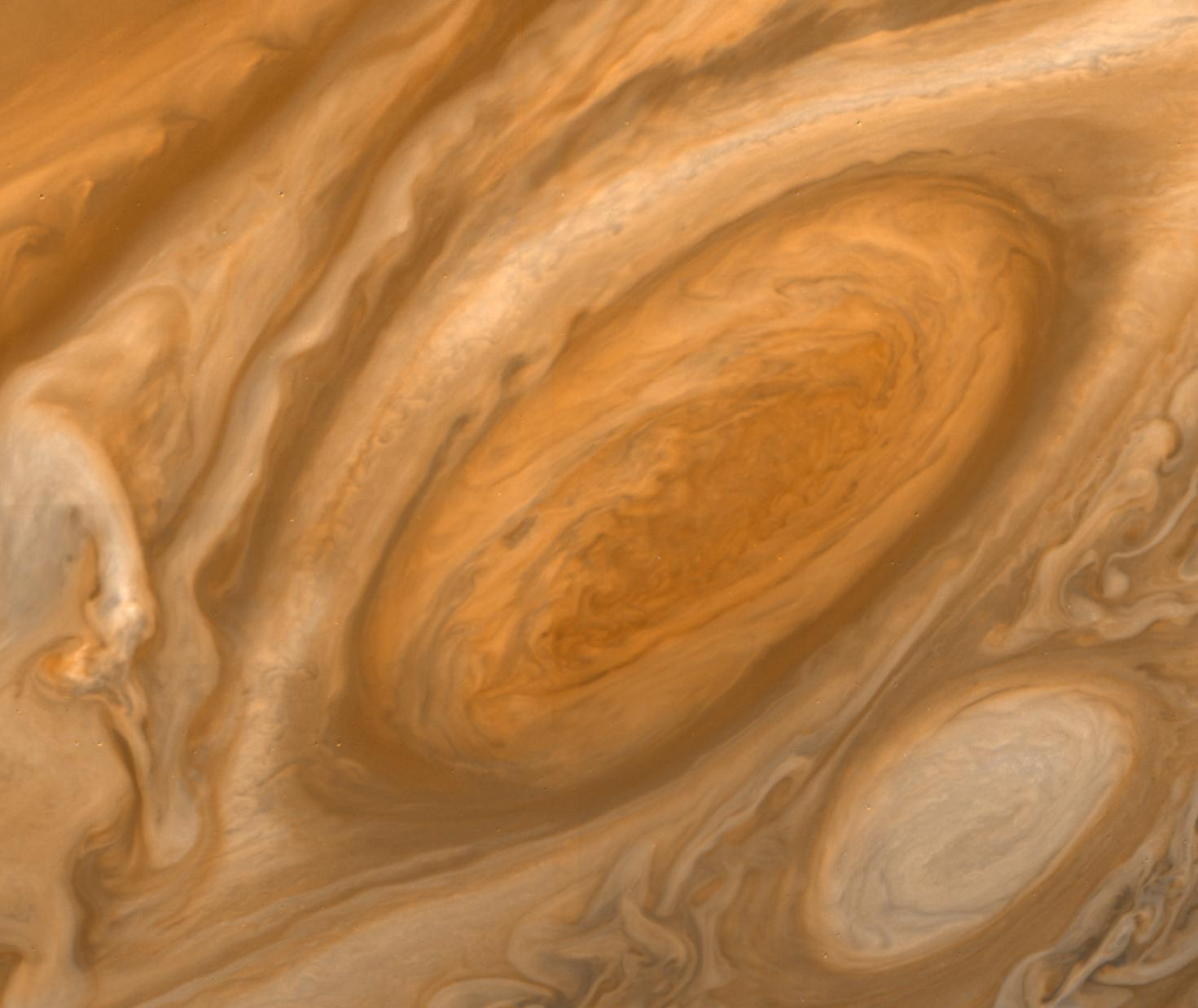 This mosaic of the Great Red Spot shows that the region has changed significantly since the Voyager 1 encounter three months ago. Around the northern boundary a white cloud is seen, which extends to east of the region. The presence of this cloud prevents small cloud vertices from circling the spot in the manner seen in the Voyager 1 encounter. Another white oval cloud (different from the one present in this position three months ago) is seen south of the Great Red Spot. The internal structure of these spots is identical. Since they both rotate in an anticyclonic manner these observations indicate that they are meteorologically similar. This image was taken on July 6 from a range of 2,633,003 kilometers.